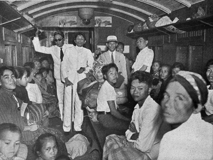 The regent of Blitar with transmigrants from his city in the train to Solo, showing them out